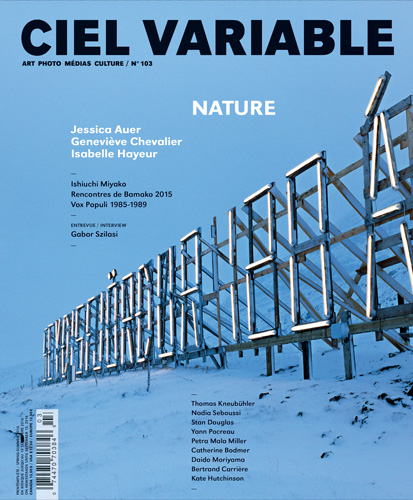 Cover, "Ciel variable 103 - Nature", Ciel variable Magazine, 2016.